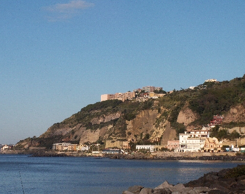 Private photo taken and uploaded by user Jeffmatt 20:39, 4 November 2006 (UTC)